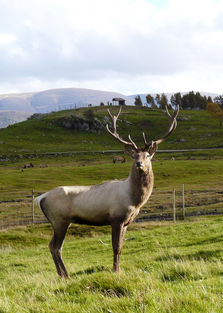 Bukhara Deer stag at Speyside Wildlife Park A fine specimen of an extremely endangered Central Asian deer.